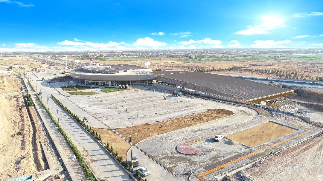 مترو شهر جدید هشتگرد